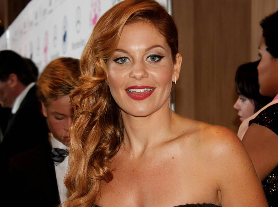 Candace Cameron Bure at the Mercedes-Benz Carousel of Hope Gala 2014